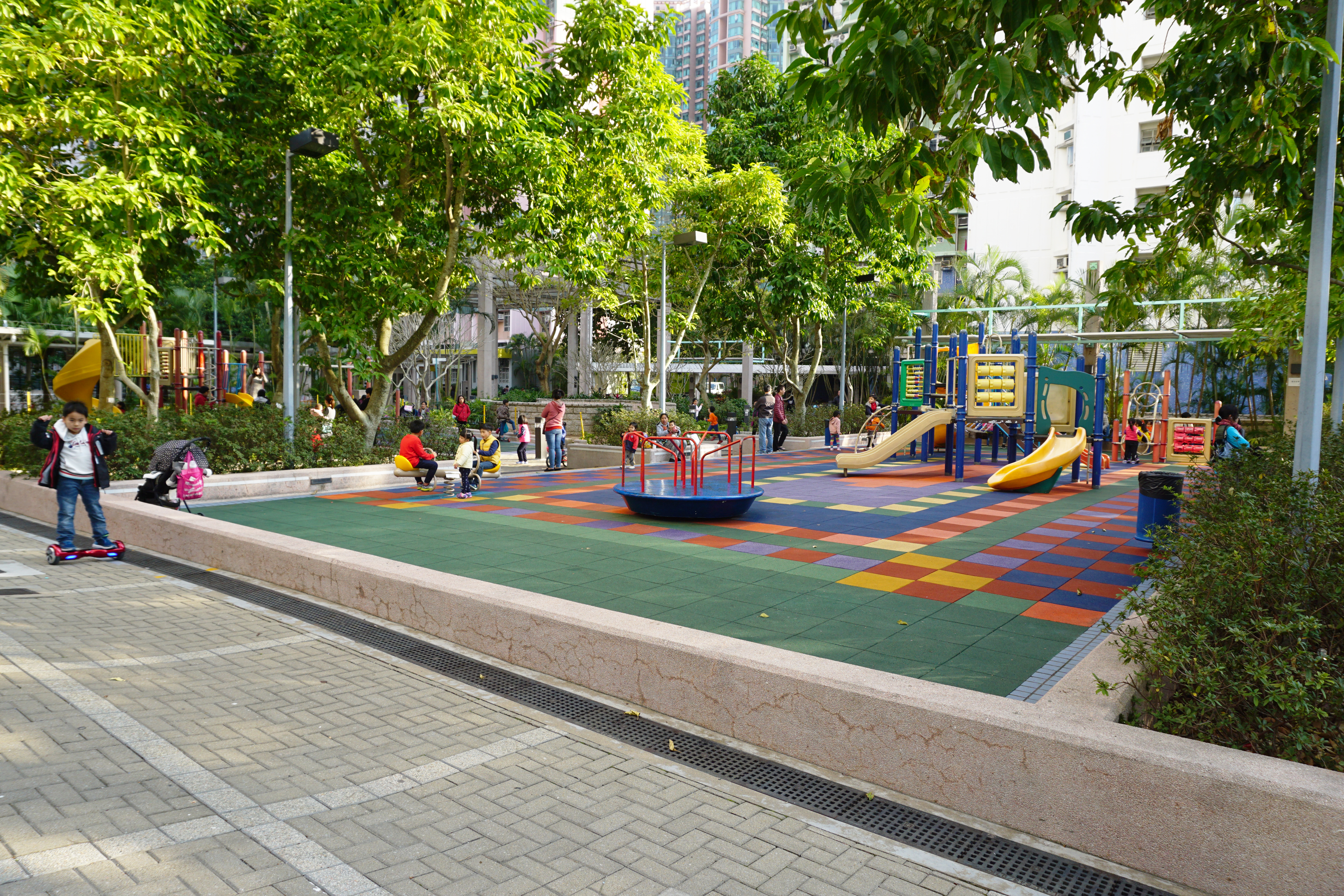 Kam Fung Court in Ma On Shan, Hong Kong.